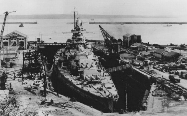 The German battleship Gneisenau in a dry dock at Brest, France, in April 1941.